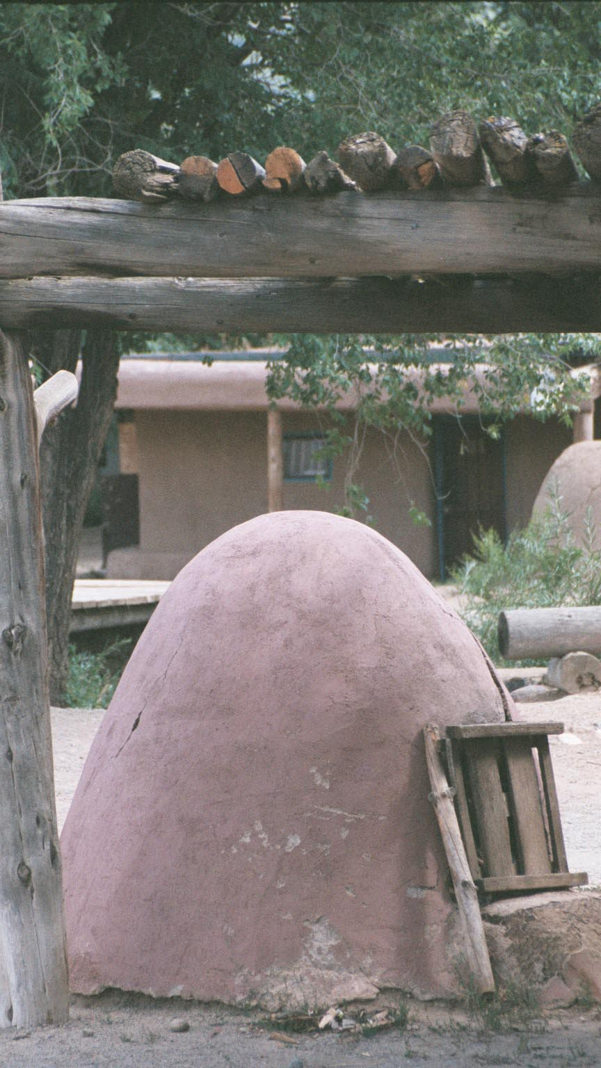 Photo I took myself (Michael J. Brown) of a "Horno" (an adobe oven) at Taos Pueblo in New Mexico in 2003.